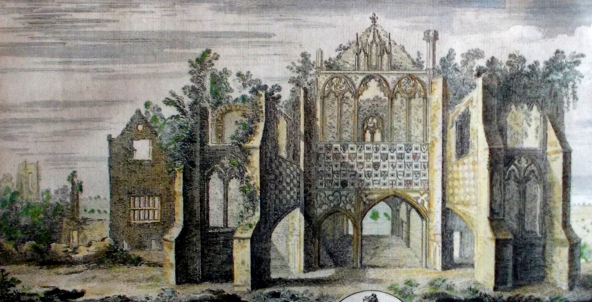 Detail of 1738 engraving by Samuel and Nathaniel Buck showing Butley Priory gatehouse